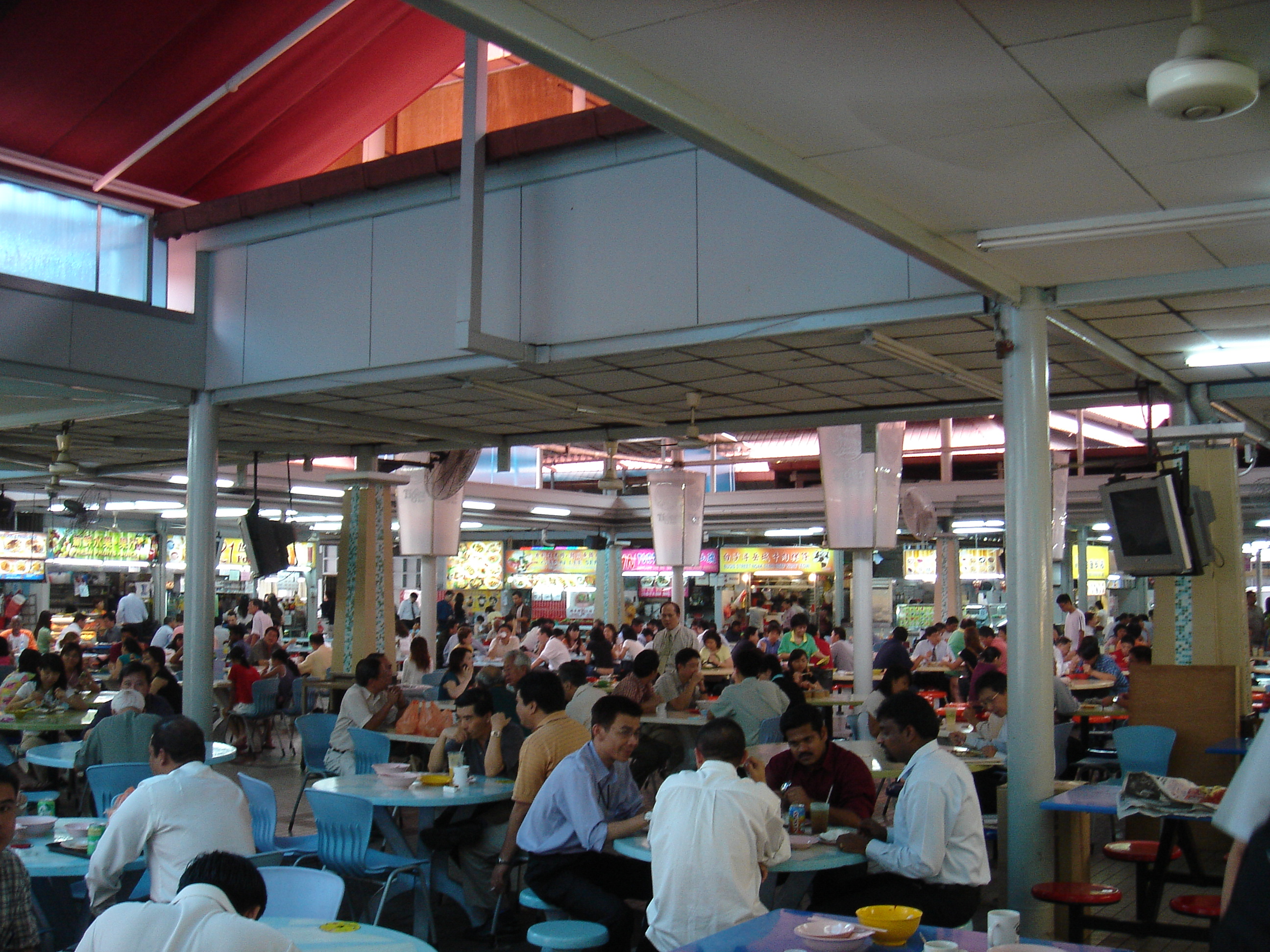 Lavendar Food Court, Singapore.